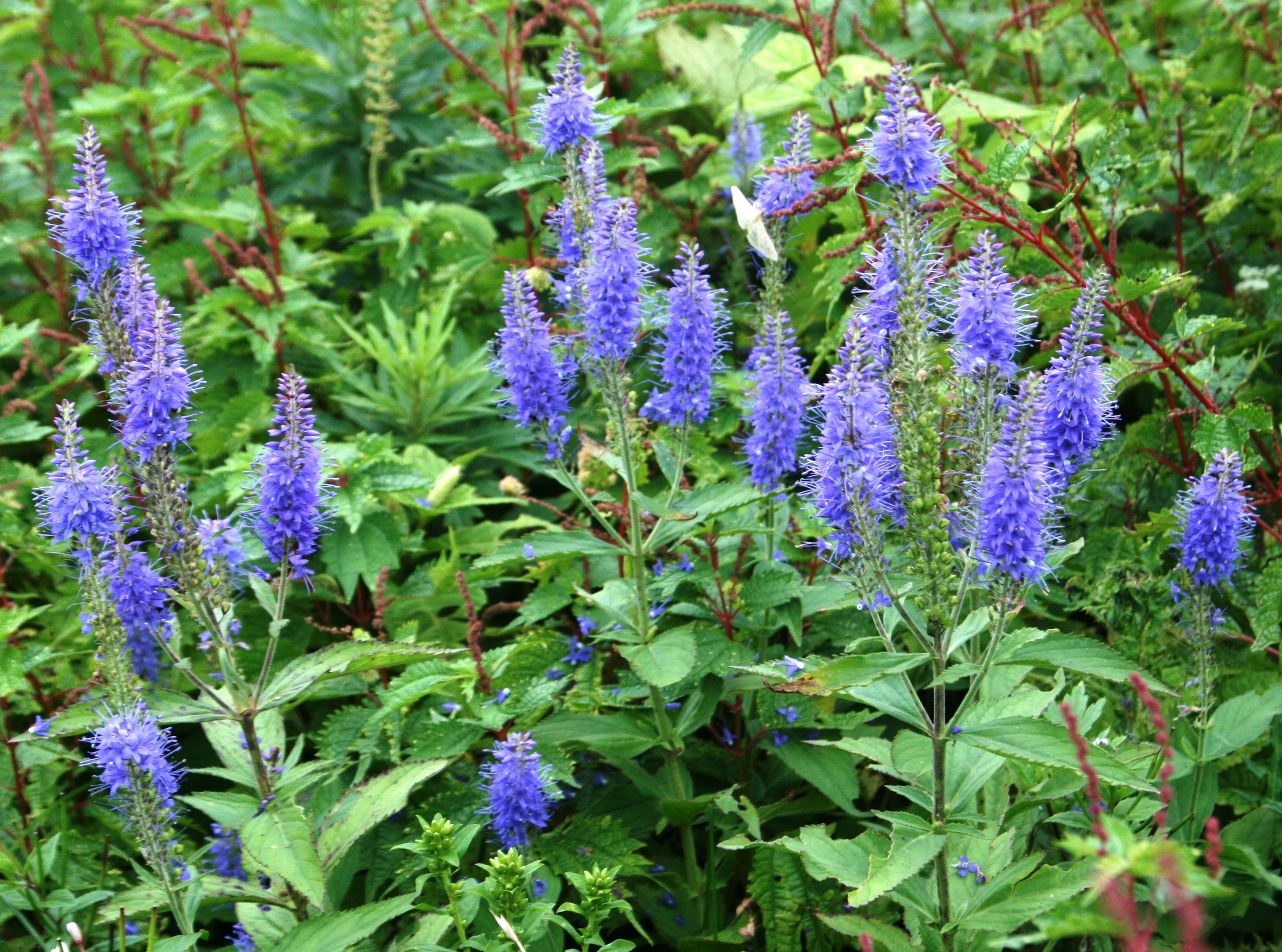 Pseudolysimachion subsessile in Mount Ibuki